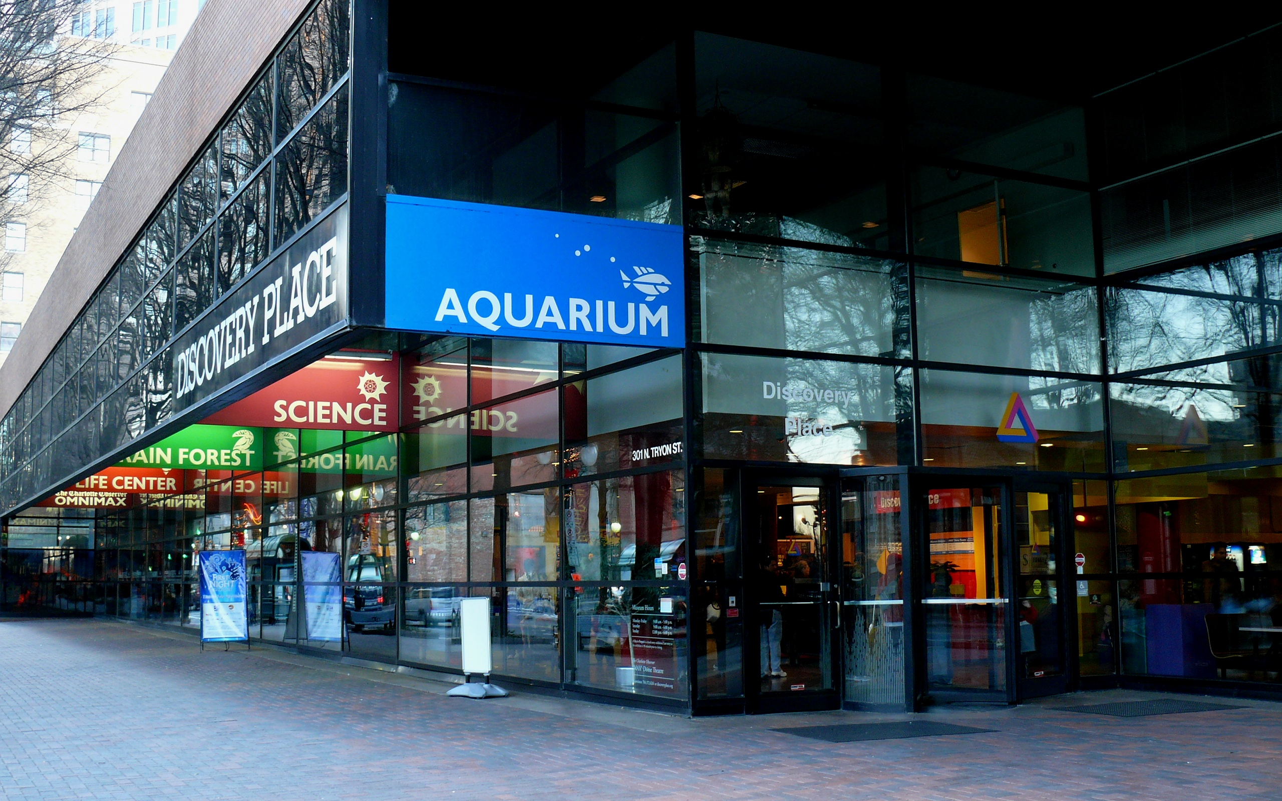 The main entrance to the Discovery Place science museum on Tryon Street in uptown Charlotte. Photo taken with a Panasonic Lumix DMC-FZ50 in Mecklenburg County, NC, USA. Cropping and post-processing performed with The GIMP.